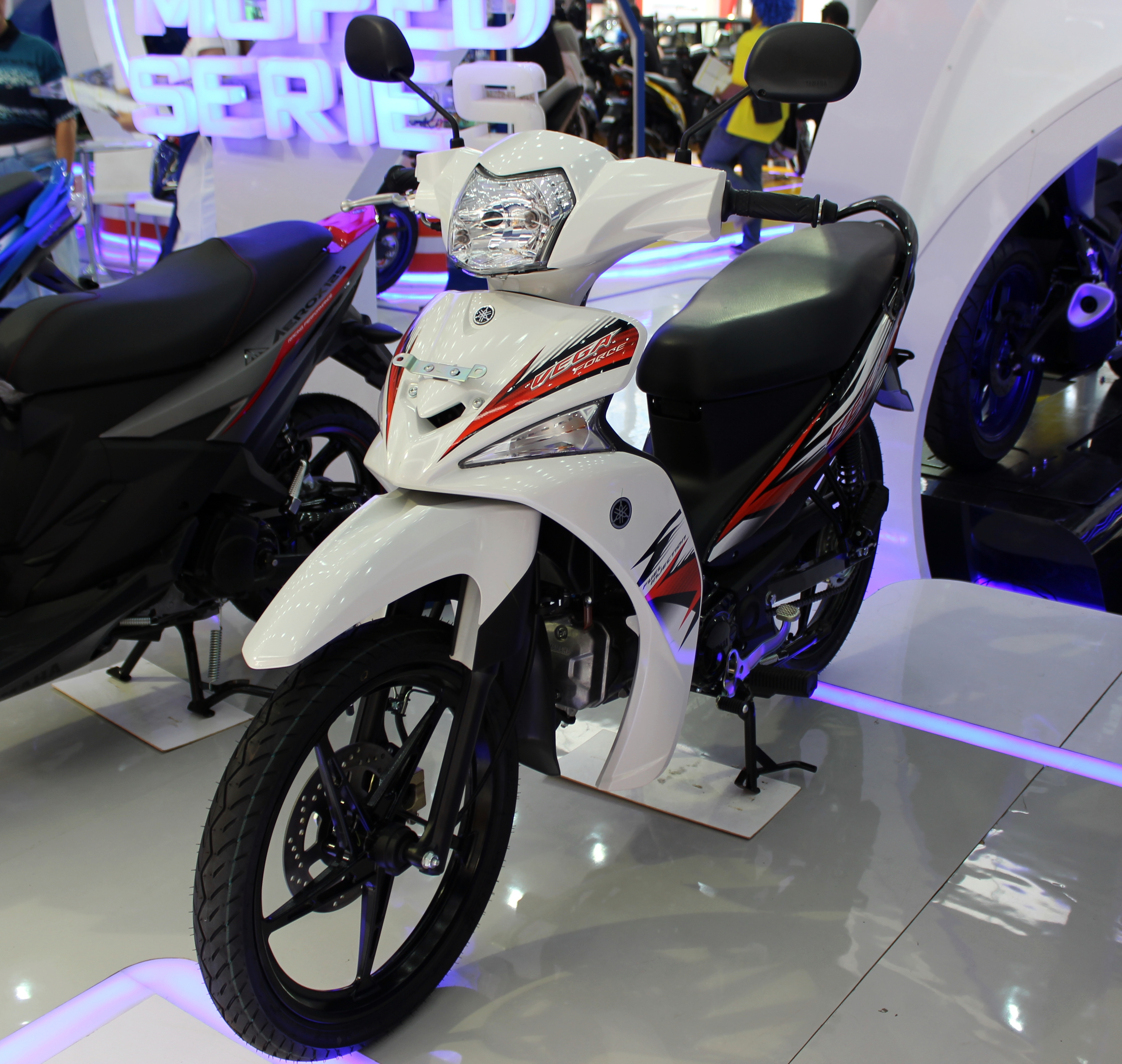 A Yamaha Vega Force photographed in Jakarta Fair 2016, Jakarta, Indonesia on June 21, 2016.